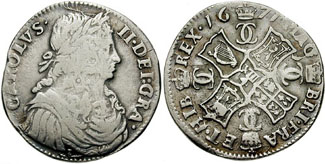 Scotland. Charles II of Scotland. 1660-1685. AR Merk (26mm, 6.19 gm). Dated 1671. Mint: Edinburgh Laureate, draped, and cuirassed bust right; thistle below bust Cruciform royal coat-of-arms with XIIII/4 (value) in center; crowned crossed Cs in each quarter. Burns 9; SCBC 5611 Note: thistle is the mm for Edinburgh